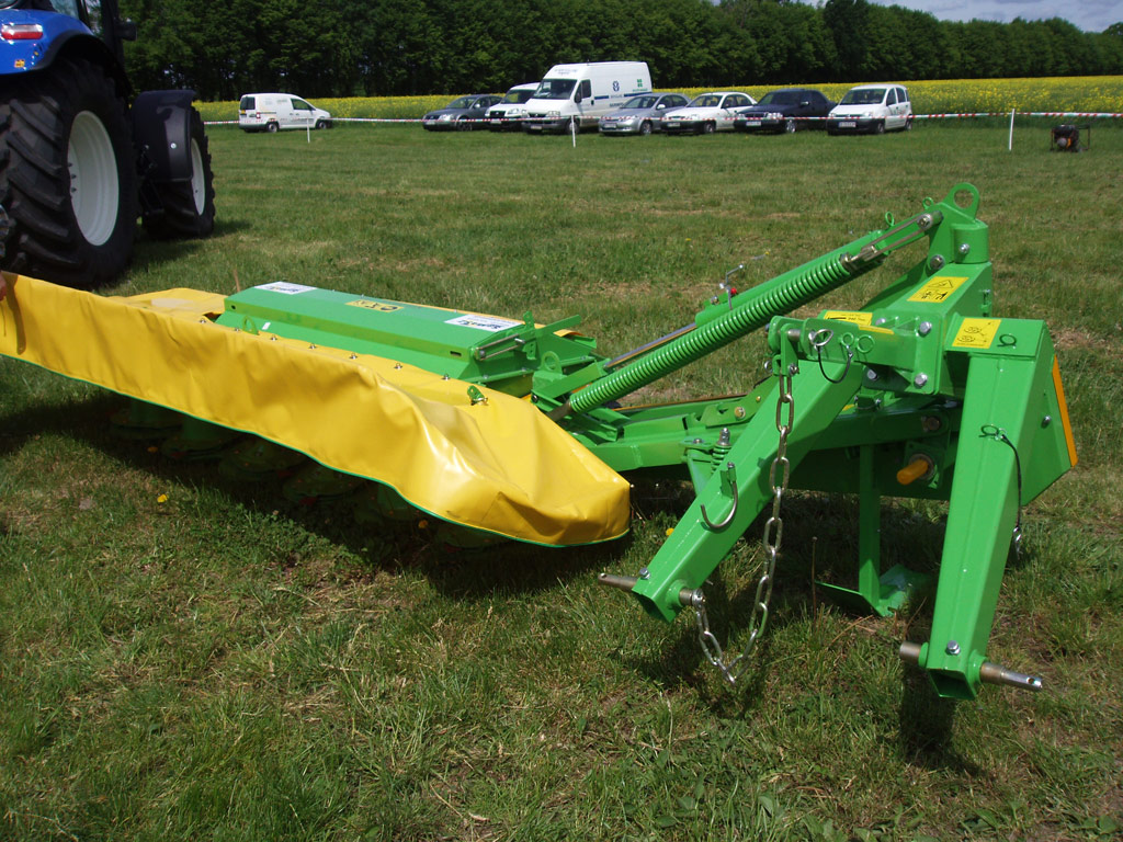 SaMASZ KDT 260 mover